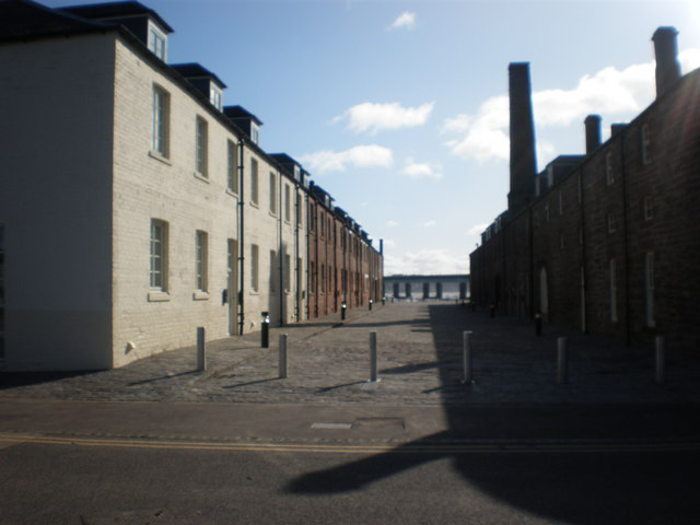 New housing development by Victoria Docks